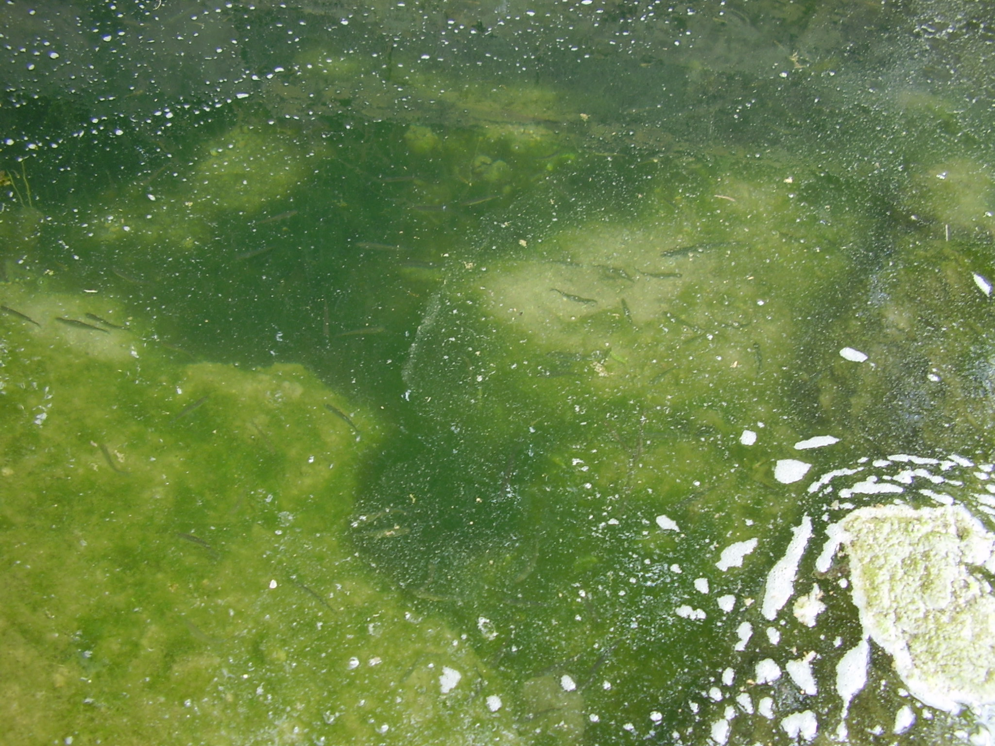 Iberian killifish (also know as Spanish toothcarp, Aphanius iberus) photographed in the Albufera lagoon in the Parque Natural de la Albufera in Valencia, eastern Spain.